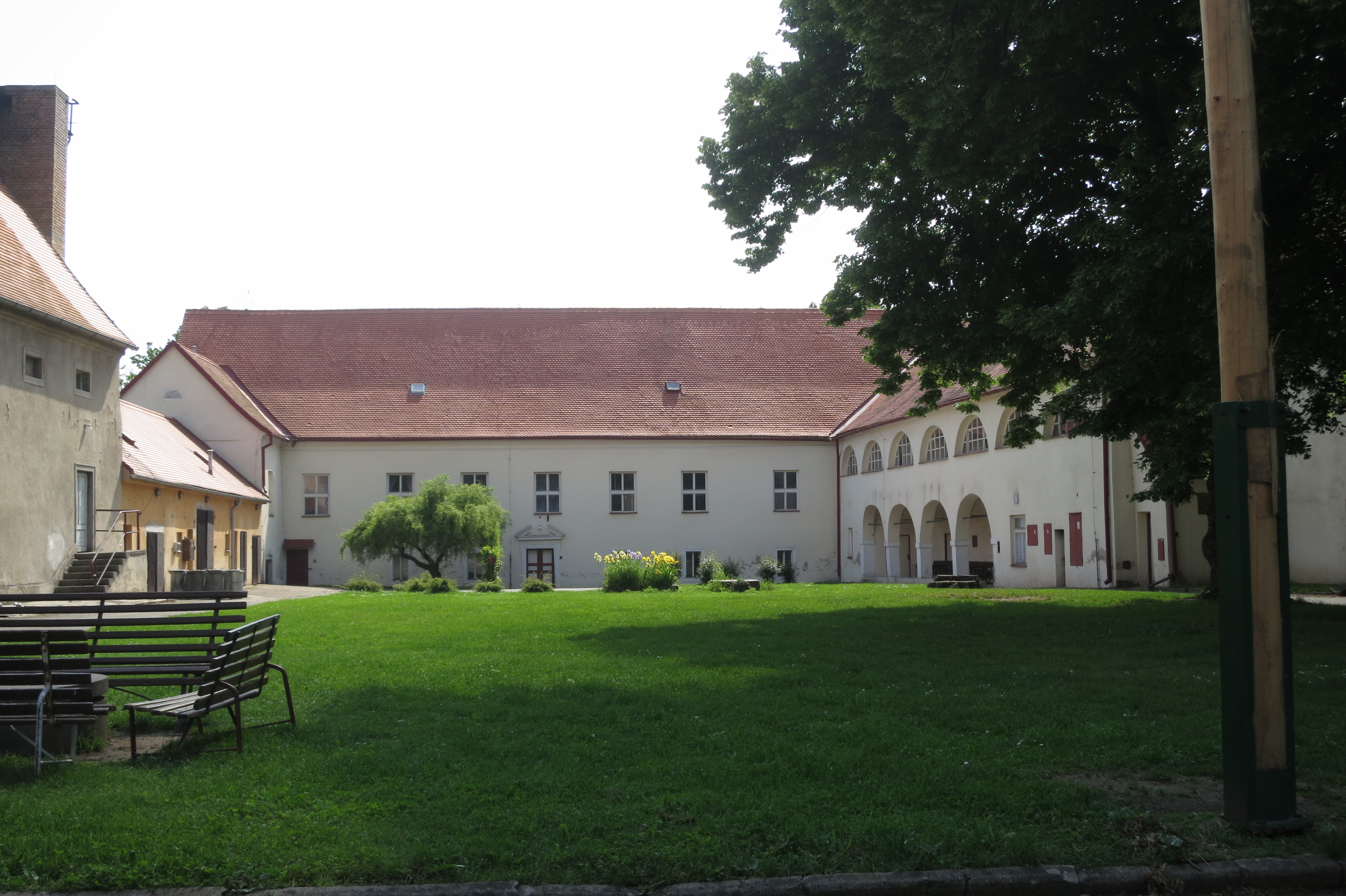 Budeč Chateau in Budeč, Jindřichův Hradec District.